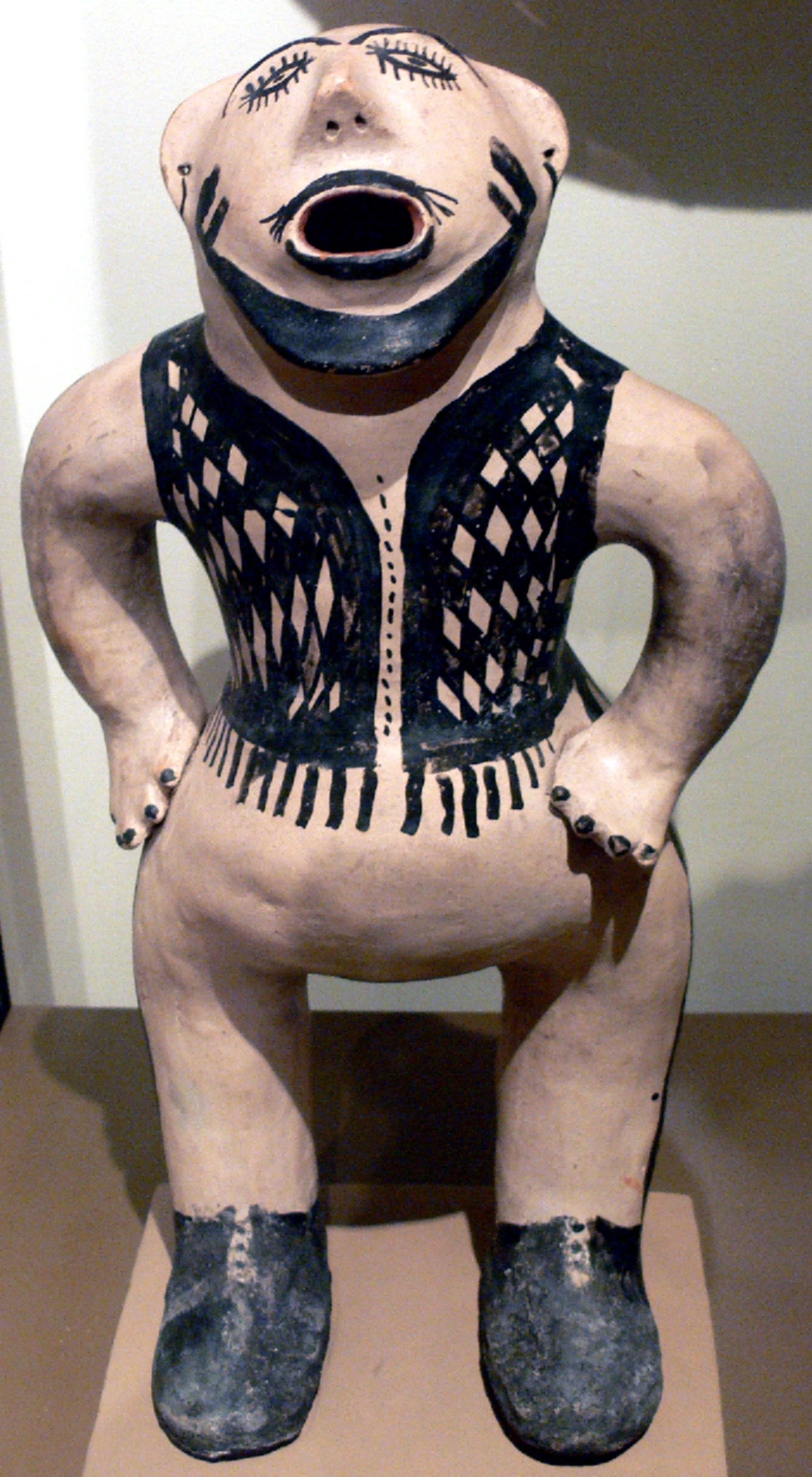 Clay figure, caricature of a white man; Cochiti Pueblo, New Mexico; North America department, Ethnological Museum, Berlin, Germany (Bandelier collection, 1883)